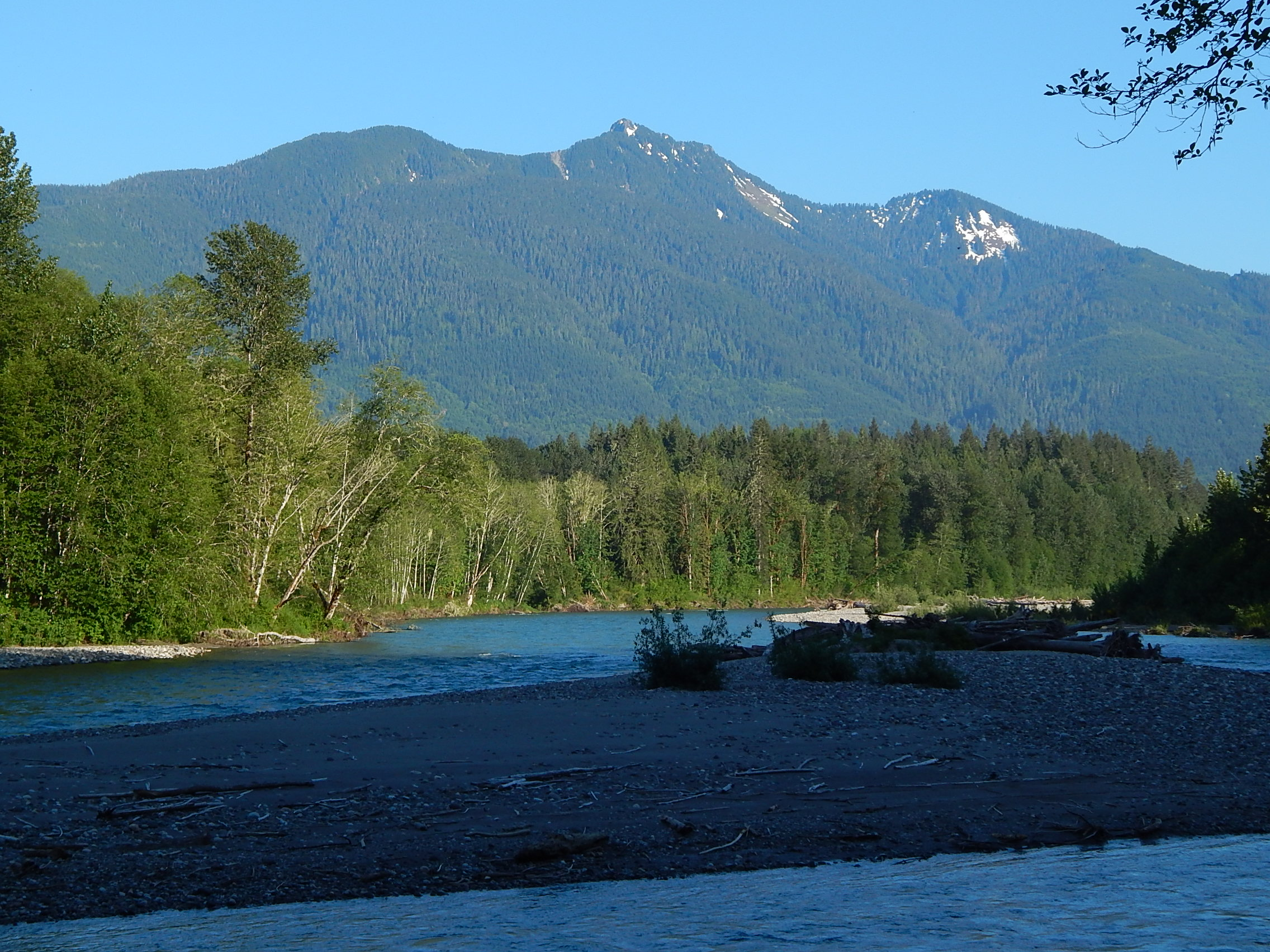 Prairie Mountain, near Darrington, WA along Highway 530 at Sauk River